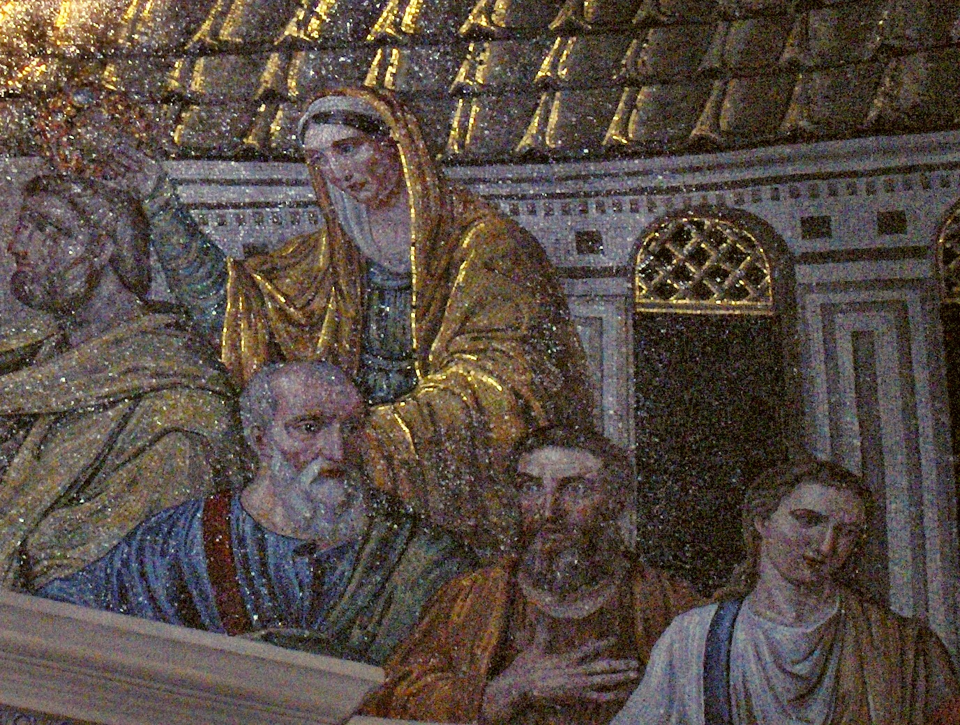 Mosaic (end 4th century) in the apse of the church of Santa Pudenziana, Rome, Italy